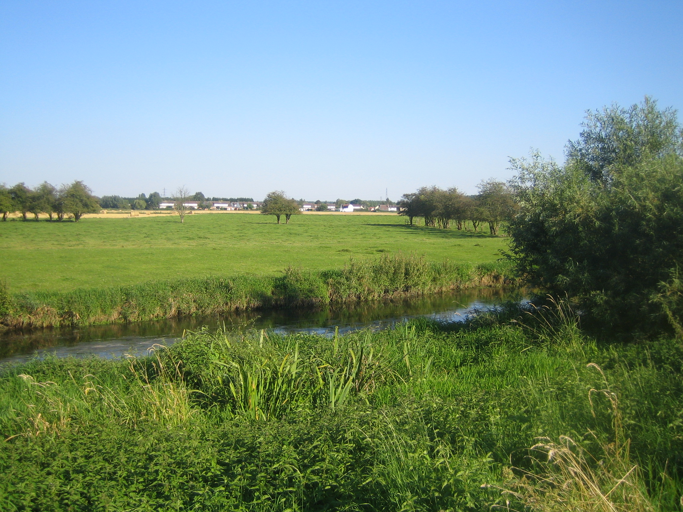 Marque river, between Villeneuve d'Ascq and Forest-sur-Marque.